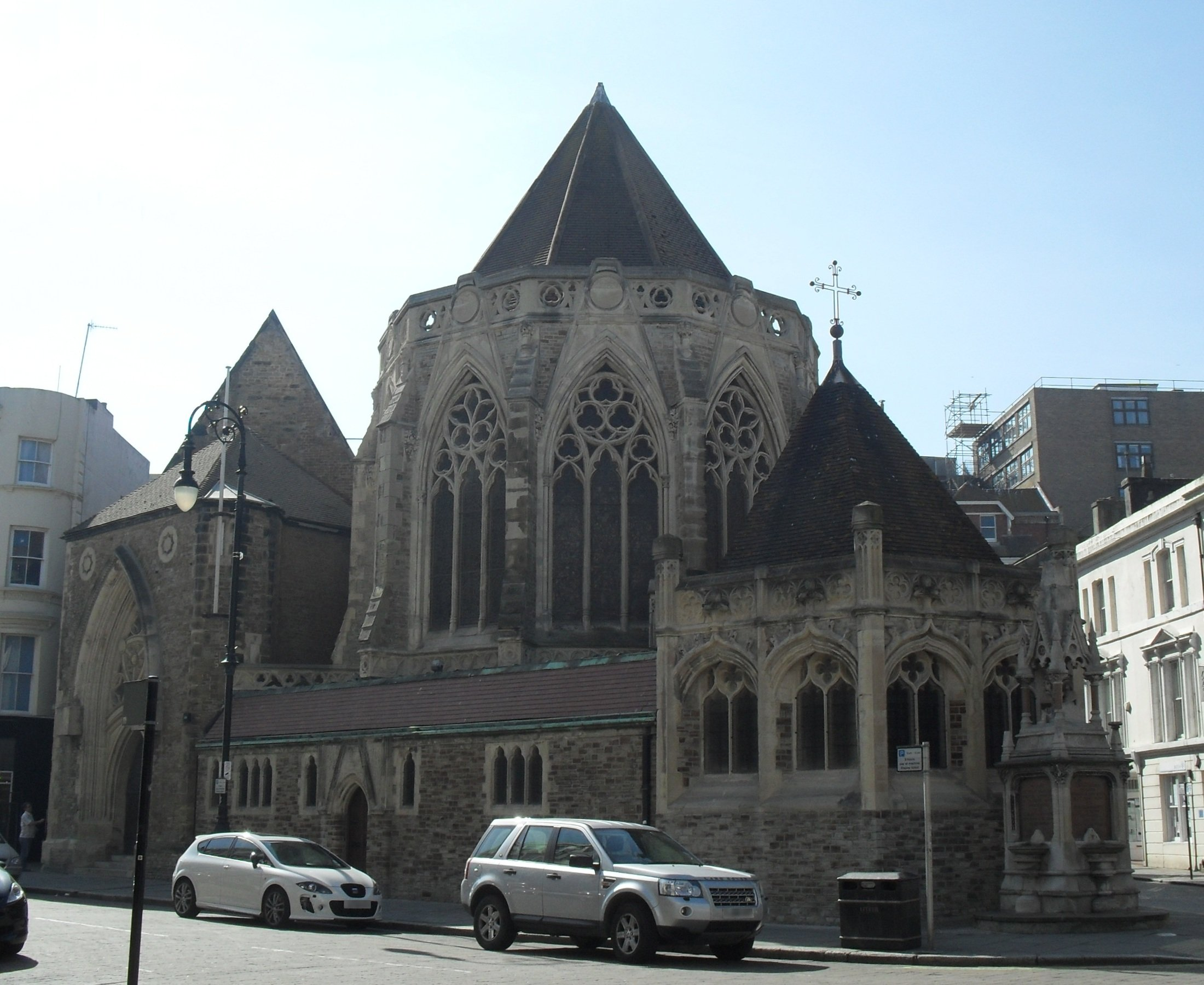 Holy Trinity Church, Robertson Street, Hastings, East Sussex, England. Designed between 1857 and 1862 by S.S. Teulon and built by John Howell & Son of Hastings on a difficult site in the town centre. The interior is opulently decorated. Listed at Grade II* by English Heritage (IoE Code 294055)